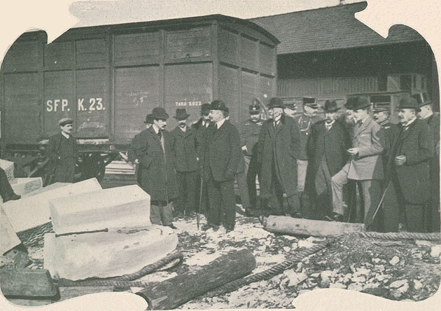 King D. Manuel II inspecting the damage caused by a flood of the Douro River on the railway station of the Porto Customs House, in Portugal. This image was published on the Ilustração Portuguesa magazine No. 203, of the 10th January 1910, and scanned by the Hemeroteca Municipal de Lisboa.